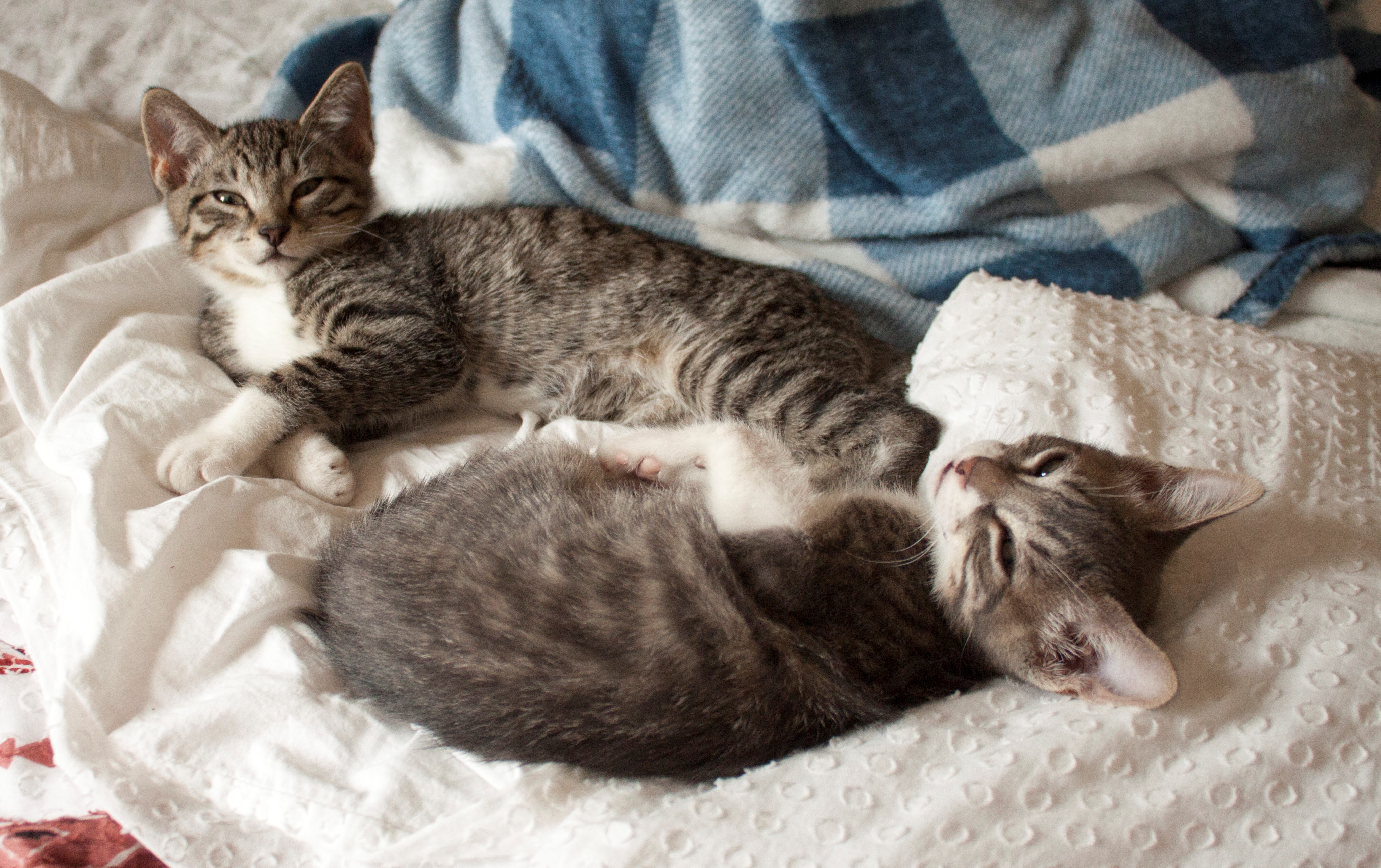 A pair of sibling kittens